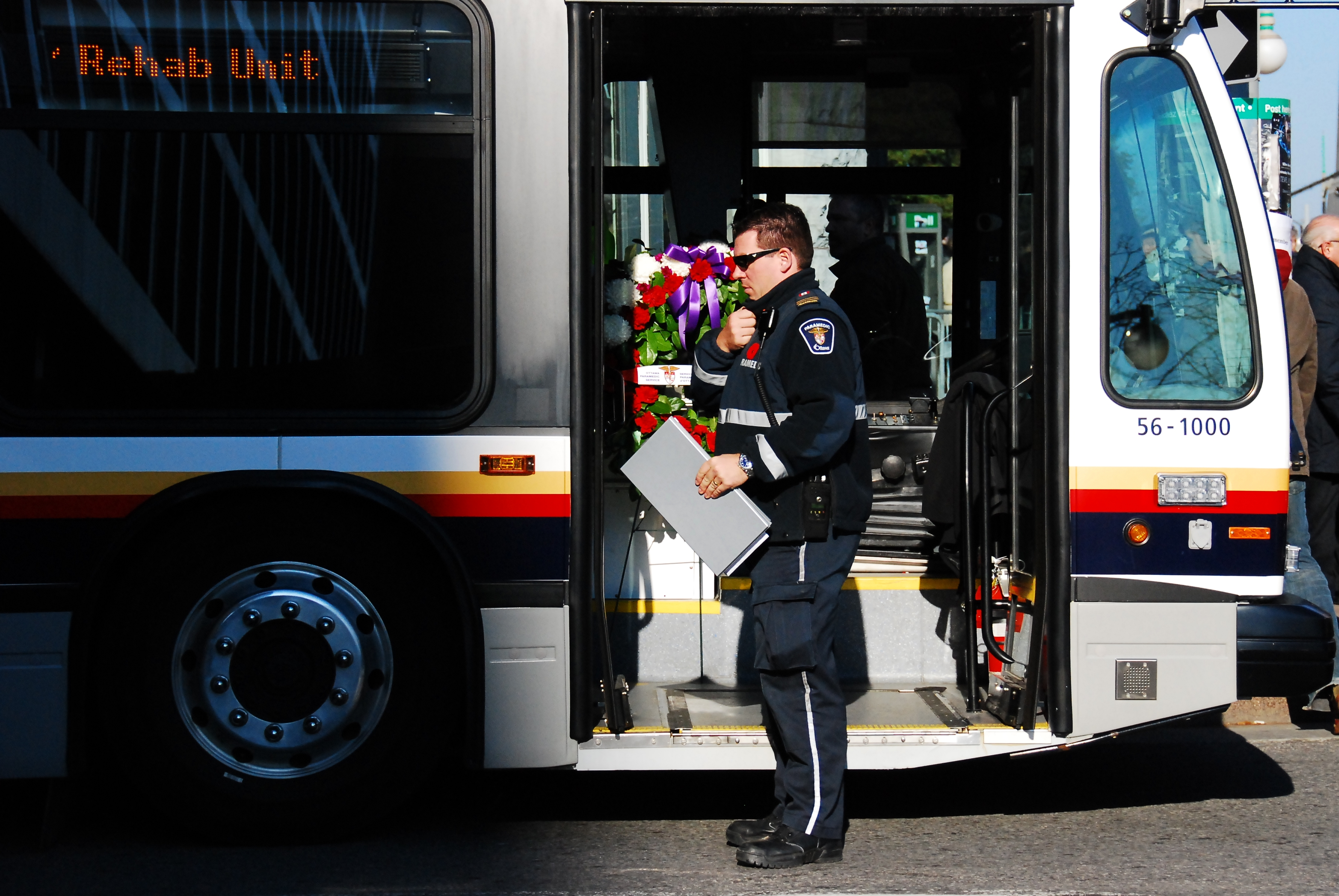 A paramedic outside the "Rehab Unit" bus on Queen Street, just before the 2007 Remembrance Day ceremonies in Ottawa. Behind him is the wreath the Ottawa Paramedic Service laid on the memorial during the ceremony.